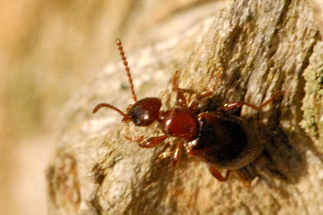 Anthicus flavipes from Commanster, Belgian High Ardennes .